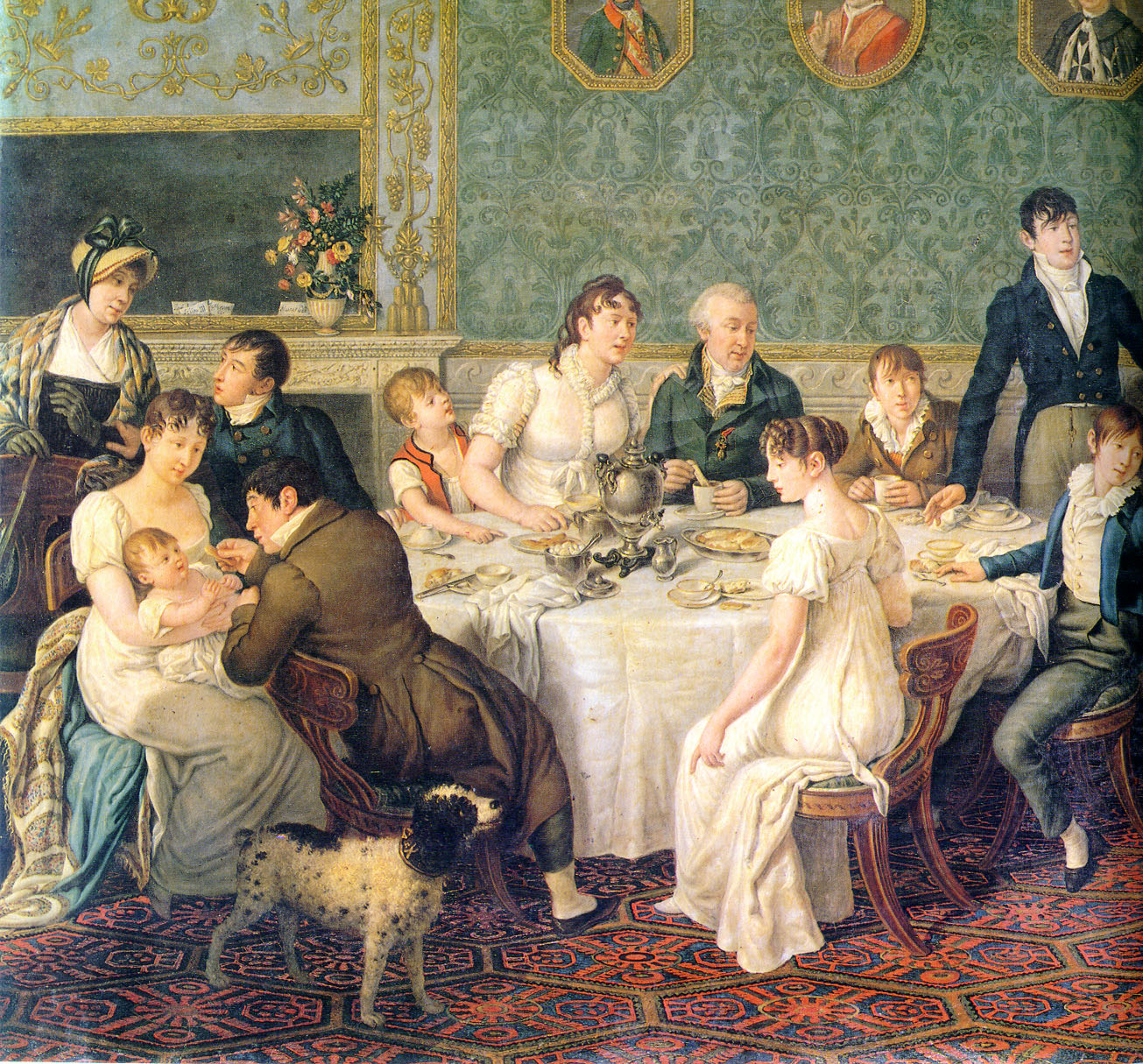 Detail of painting of members of the Ruspoli family breakfasting in their Italian palazzo, 1807. For a German-language description of the portraits on the wall (partially cropped in this image), see the description page for the related watercolor version, File:Biedermeierliche_Interieurszene_mit_einer_Teegesellschaft.jpg.